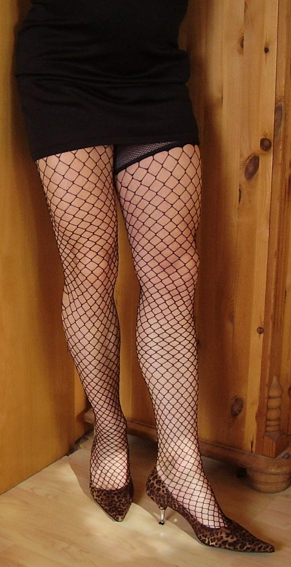 woman wearing fishnet stockings and a miniskirt